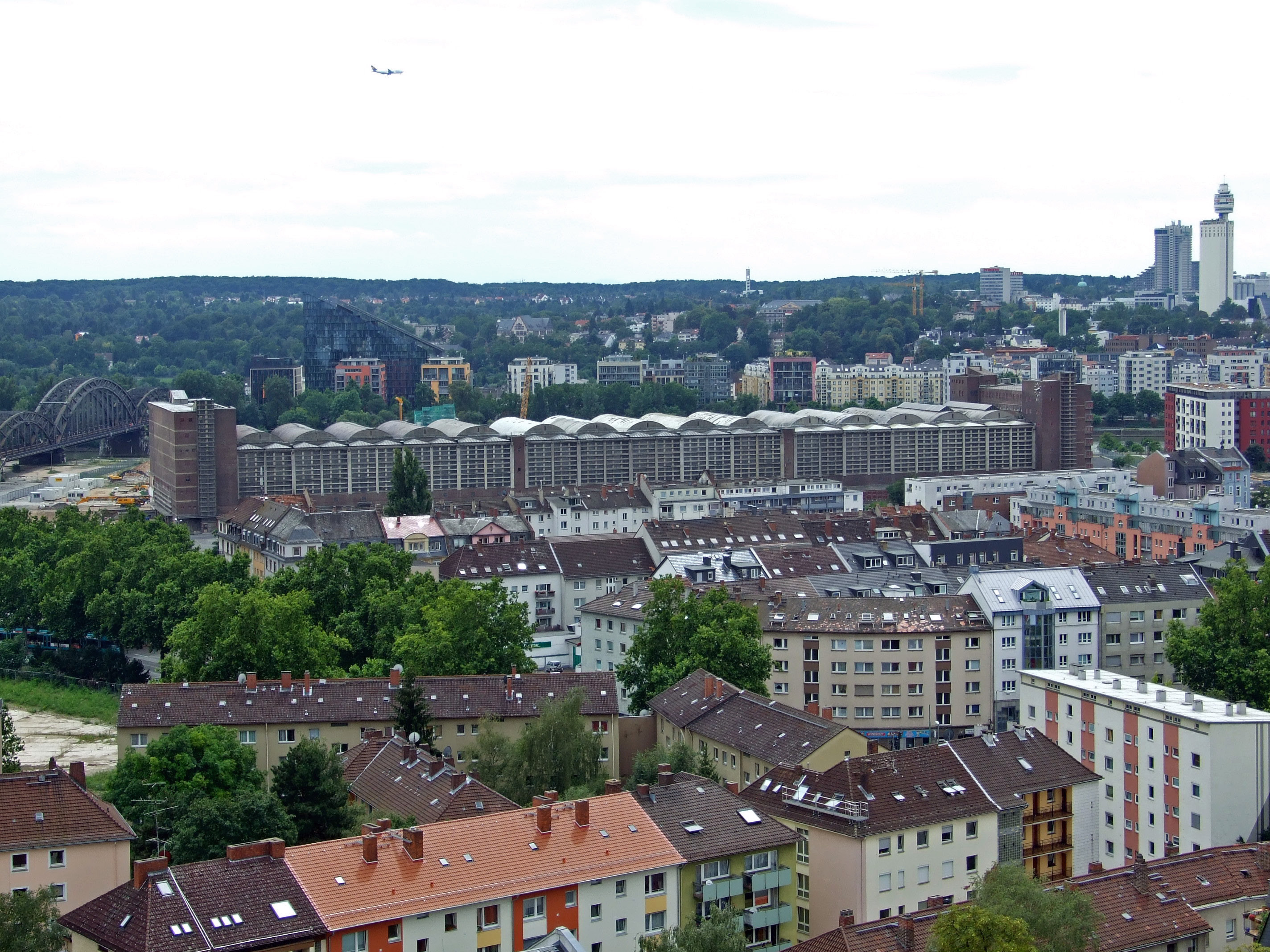 Former Wholesale Market Hall in Frankfurt am Main (from north), the new ECB building from 2011